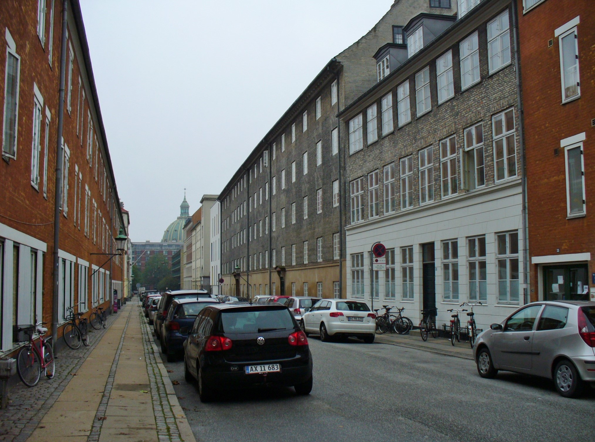 The street Klerkegade in Indre By in Copenhagen.